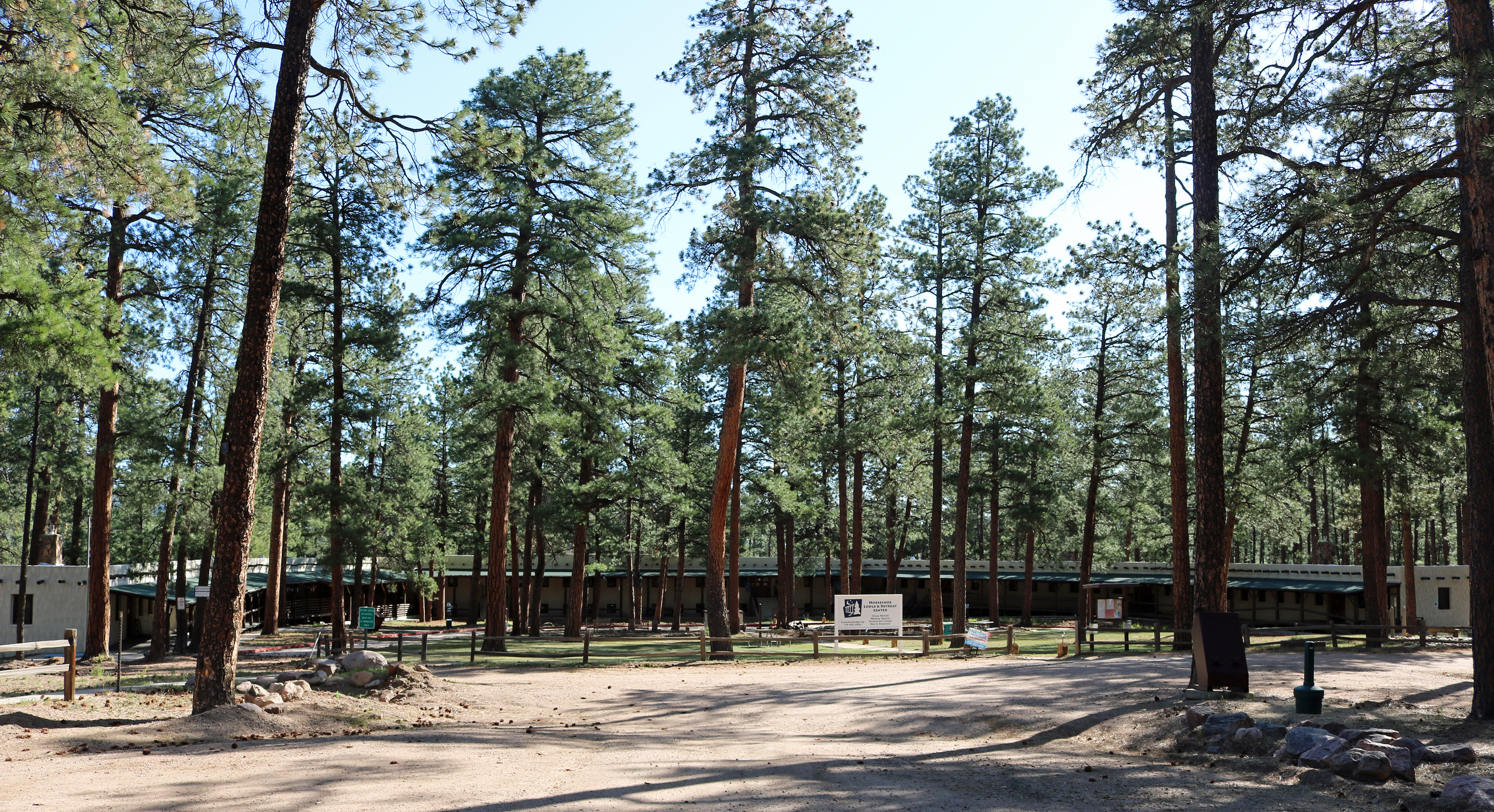 The Horseshoe Lodge at Pueblo Mountain Park. The lodge is located at 9112 Pueblo Mountain Park Road in Beulah, Colorado.